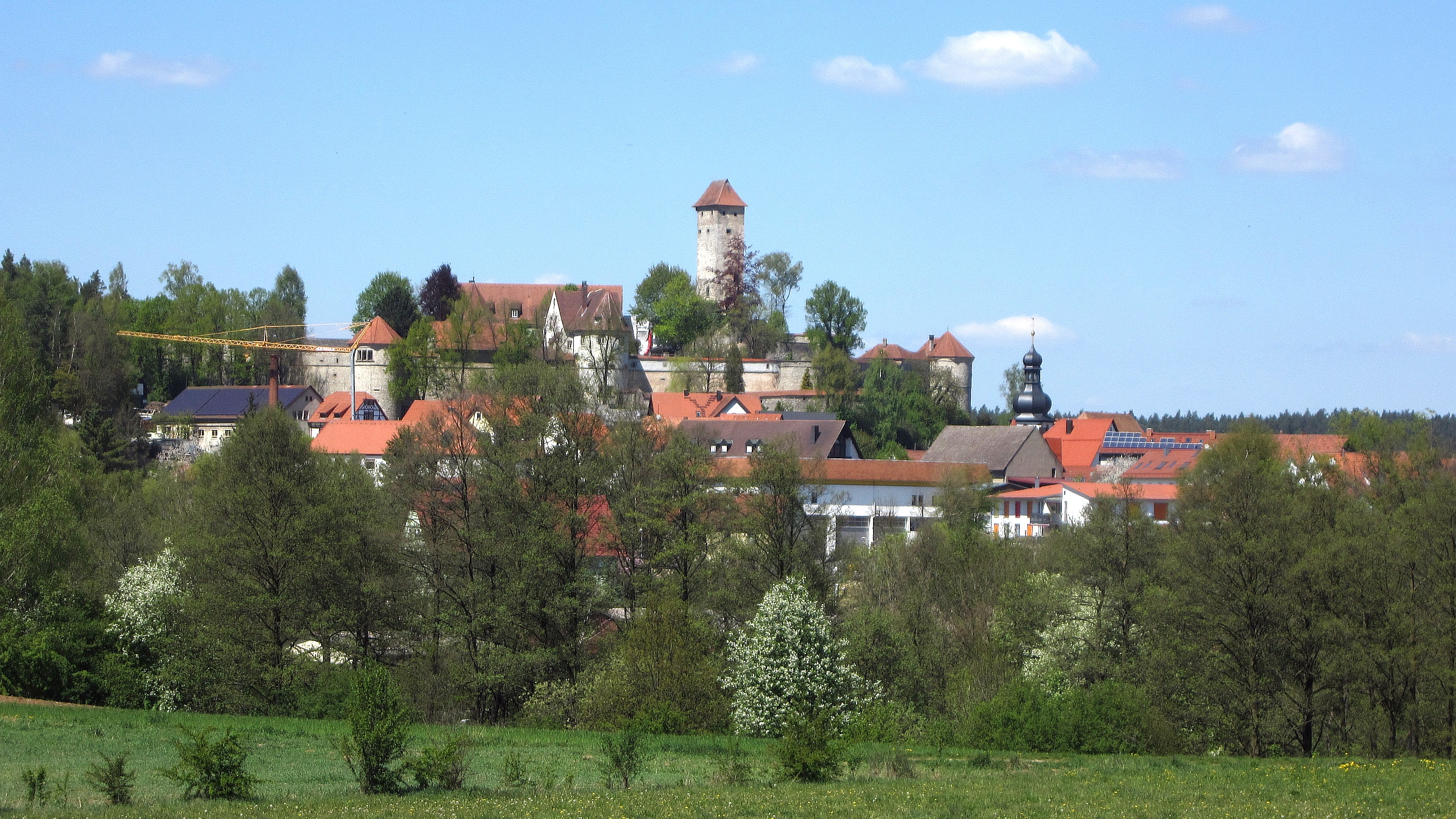 Neuhaus an der Pegnitz from South